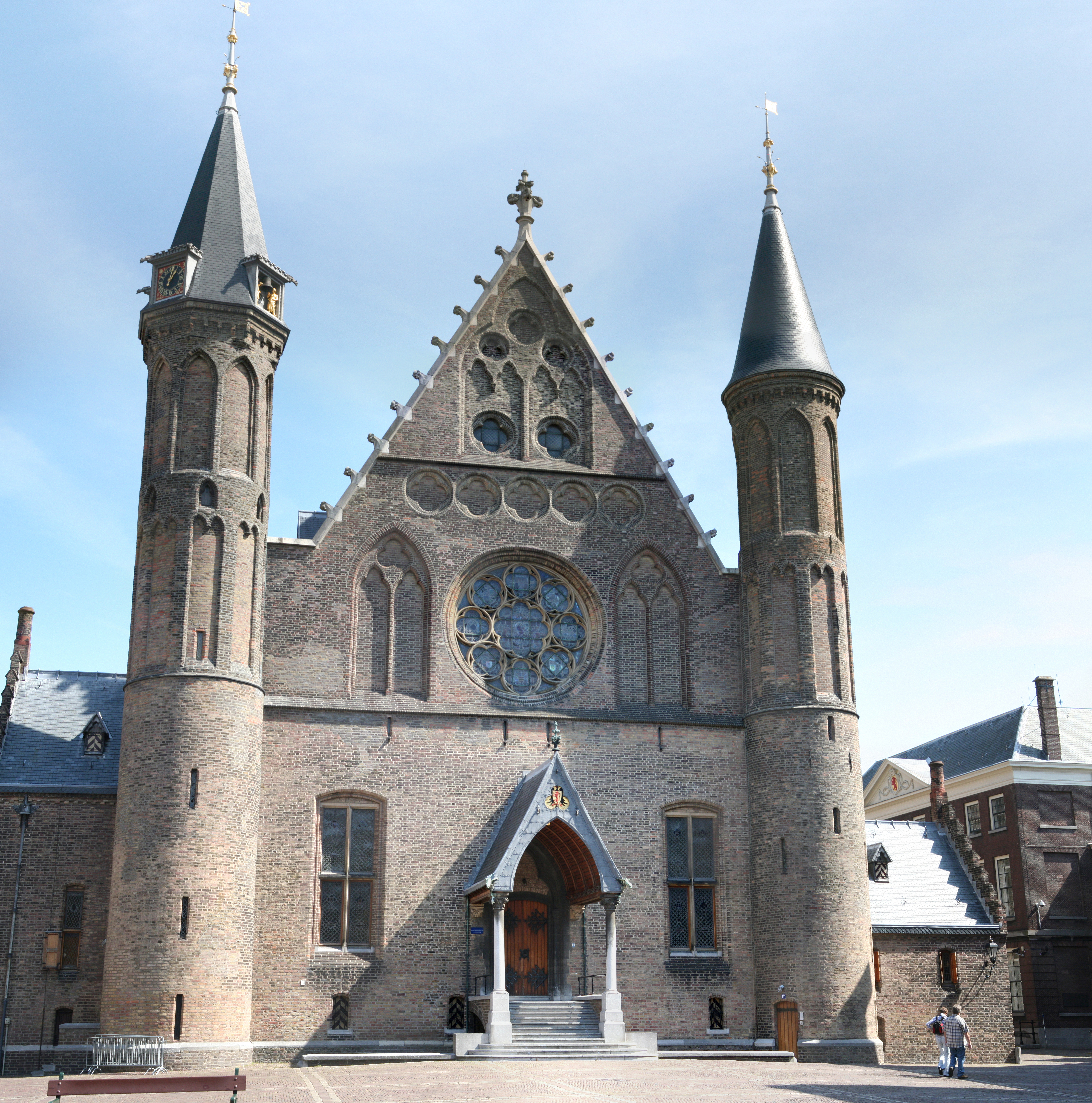 Front & entrance of the Ridderzaal in The Hague